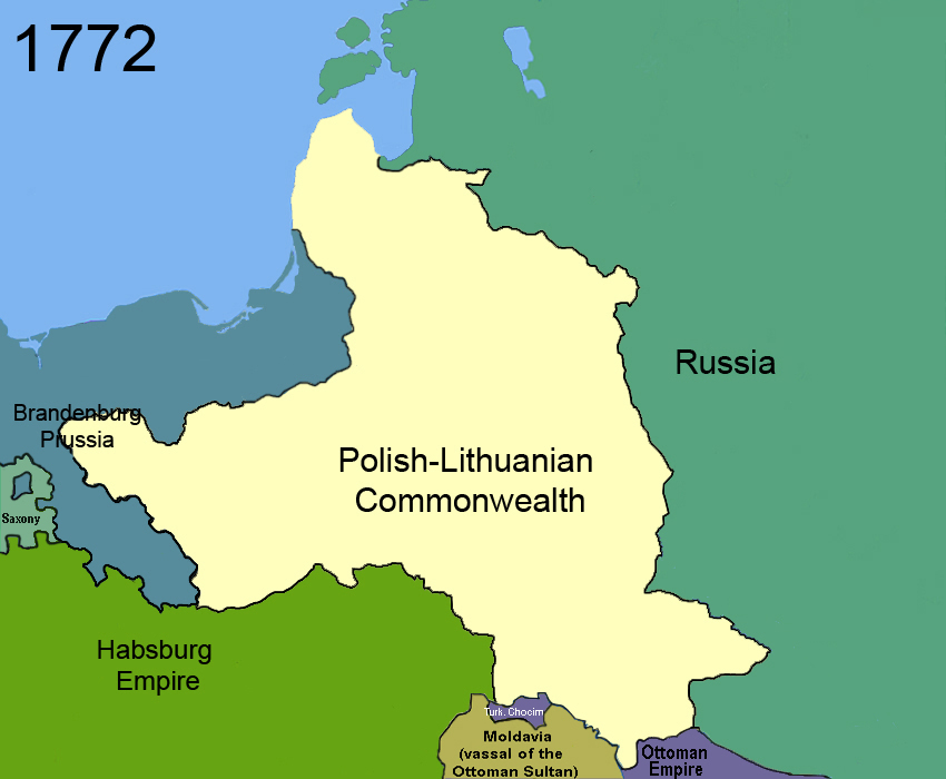 Poland 1772